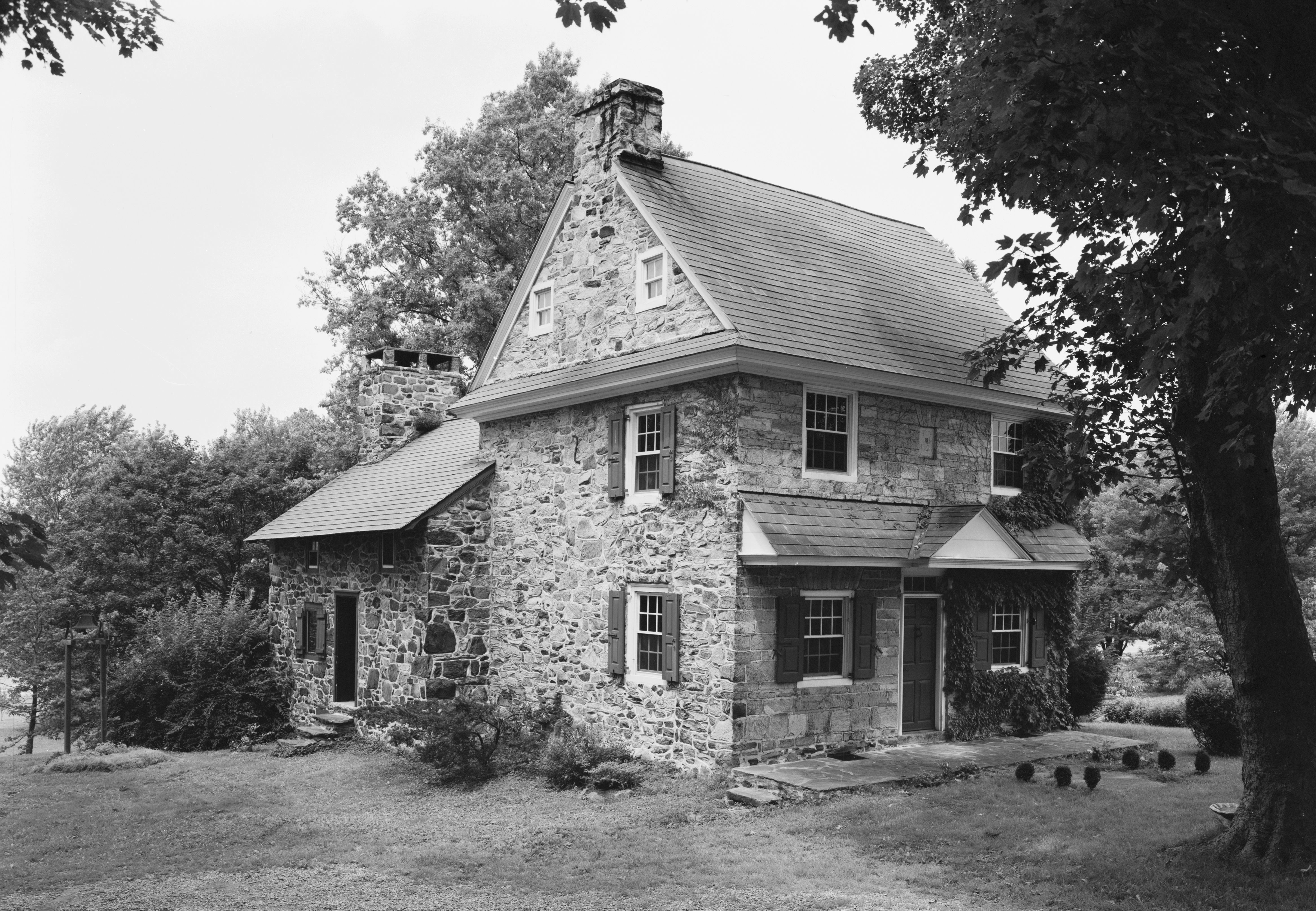 Collins Mansion on the NRHP since November 9, 1972 at 633 Goshen Road, in West Goshen Township, near West Chester, Chester County, Pennsylvania. Stone house with 1727 datestone.